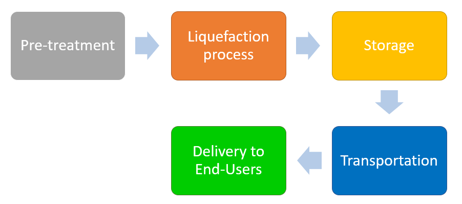 Basic steps for LNG process